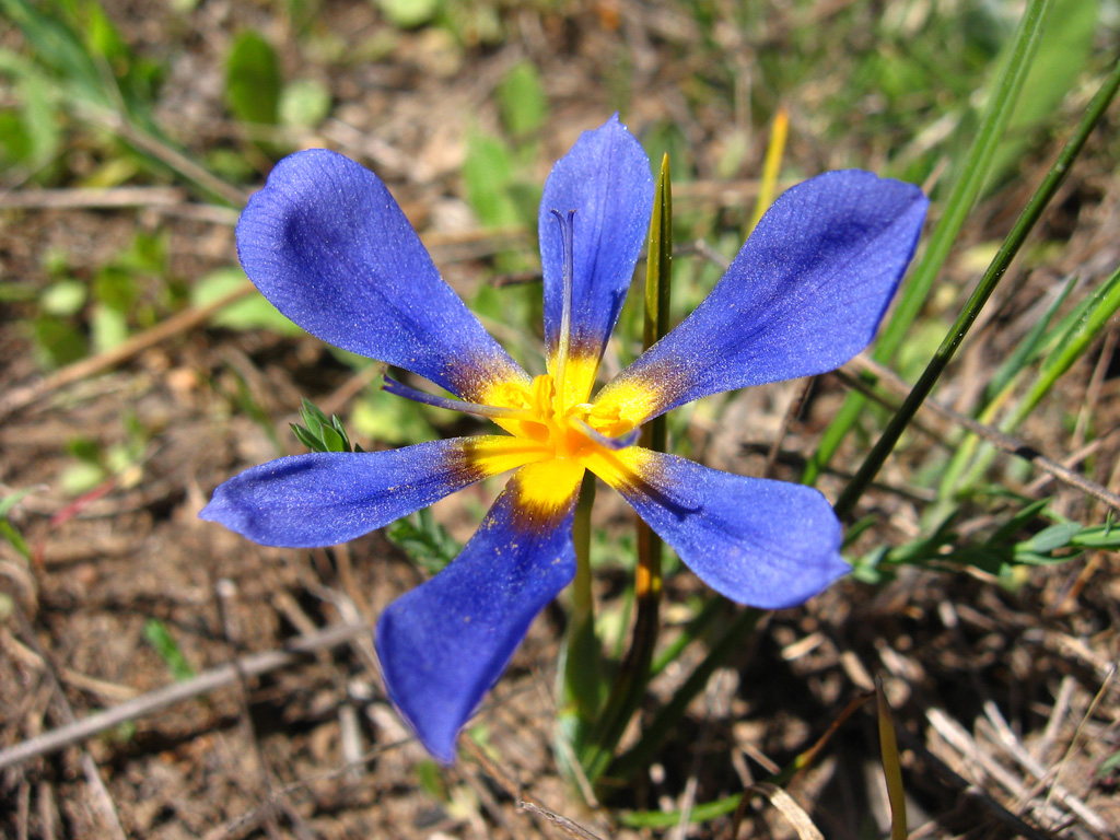 Calydorea xiphioides